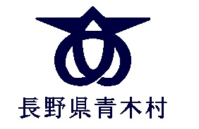 Flag of Aoki Nagano